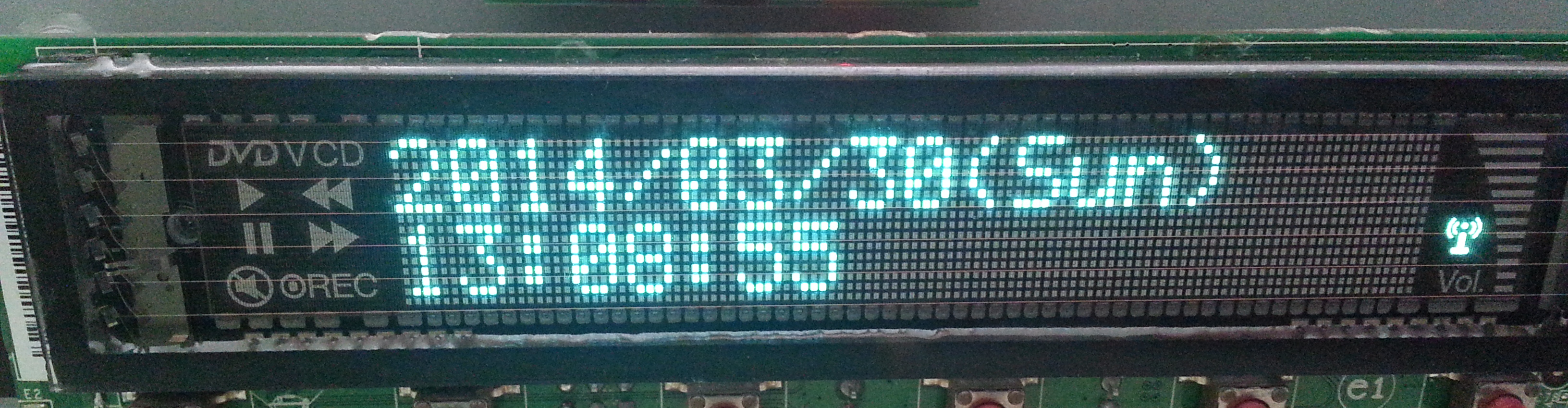 A vacuum fluorescent display on a computer. The VFD shows the date and time.